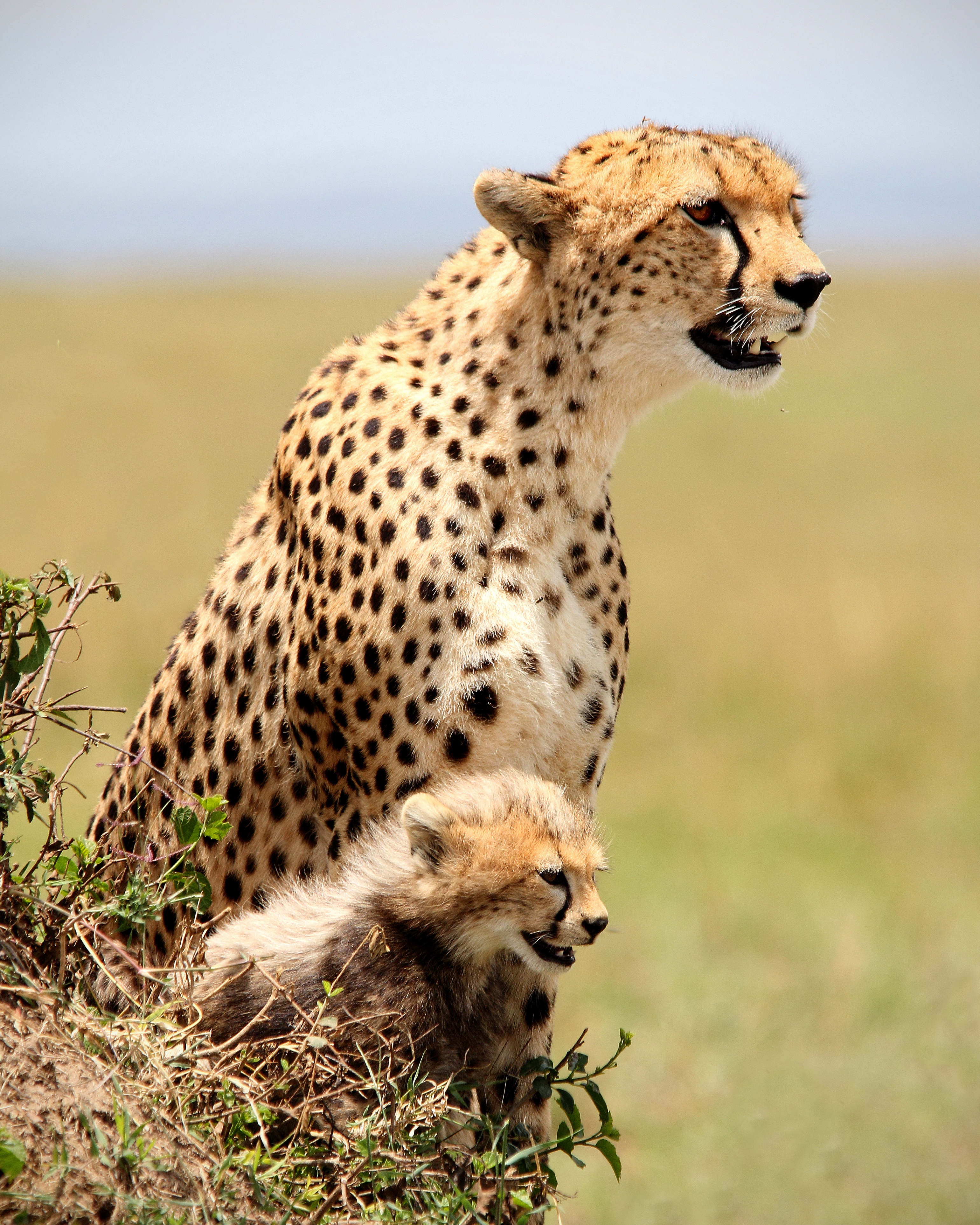 Cheetah and cub, Mara Triangle, Kenya